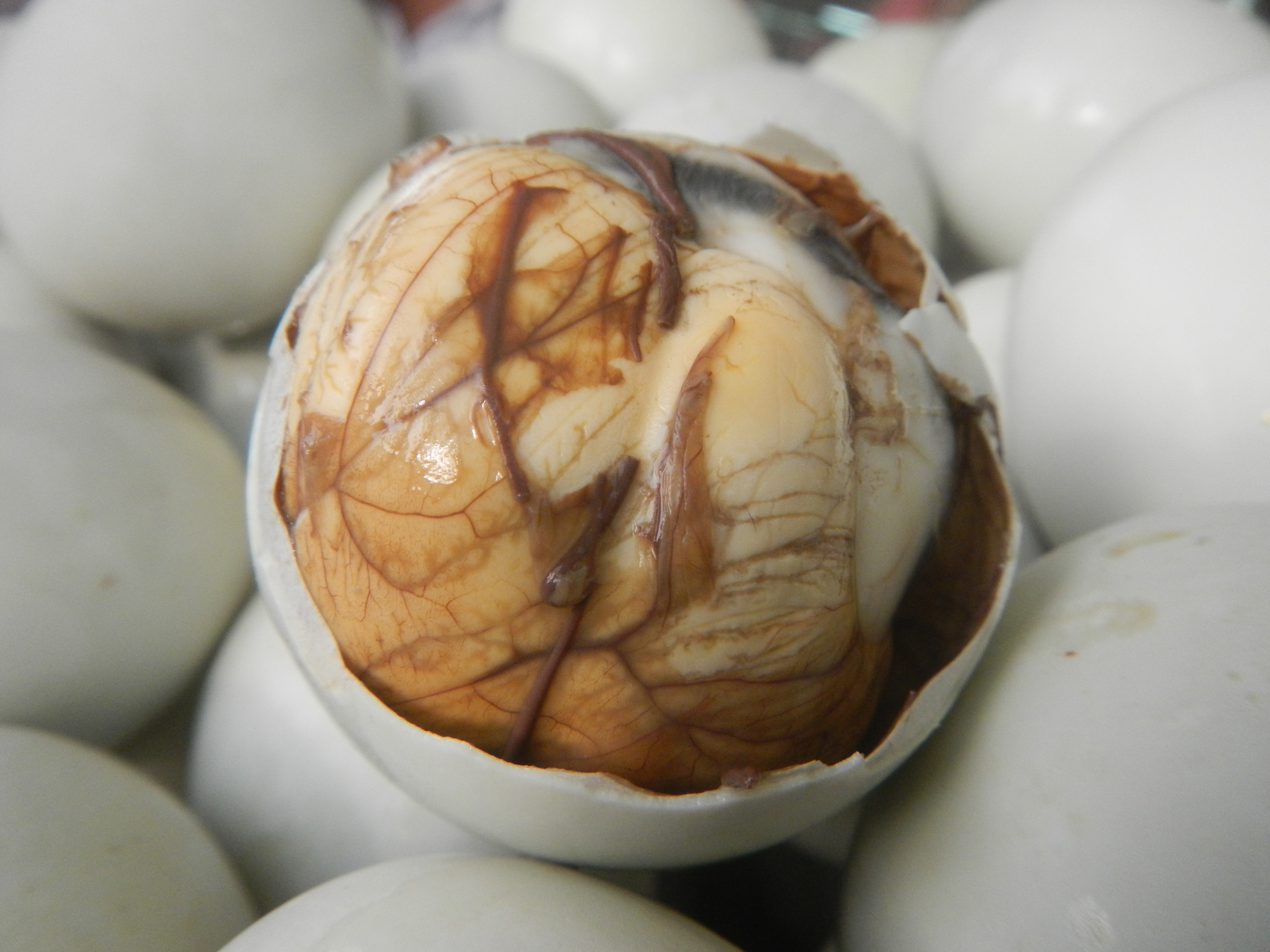 Takoyaki cooking Balut Penoy photos taken in Barangay Poblacion 14°57'17"N 120°54'2"E Baliuag, Bulacan, Bulacan province (Note: Judge Florentino Floro, the owner, to repeat, Donor Florentino Floro of all these photos Judge Floro hereby donate gratuitously, freely and unconditionally all these photos to and for Wikimedia Commons, exclusively, for public use of the public domain, and again without any condition whatsoever).